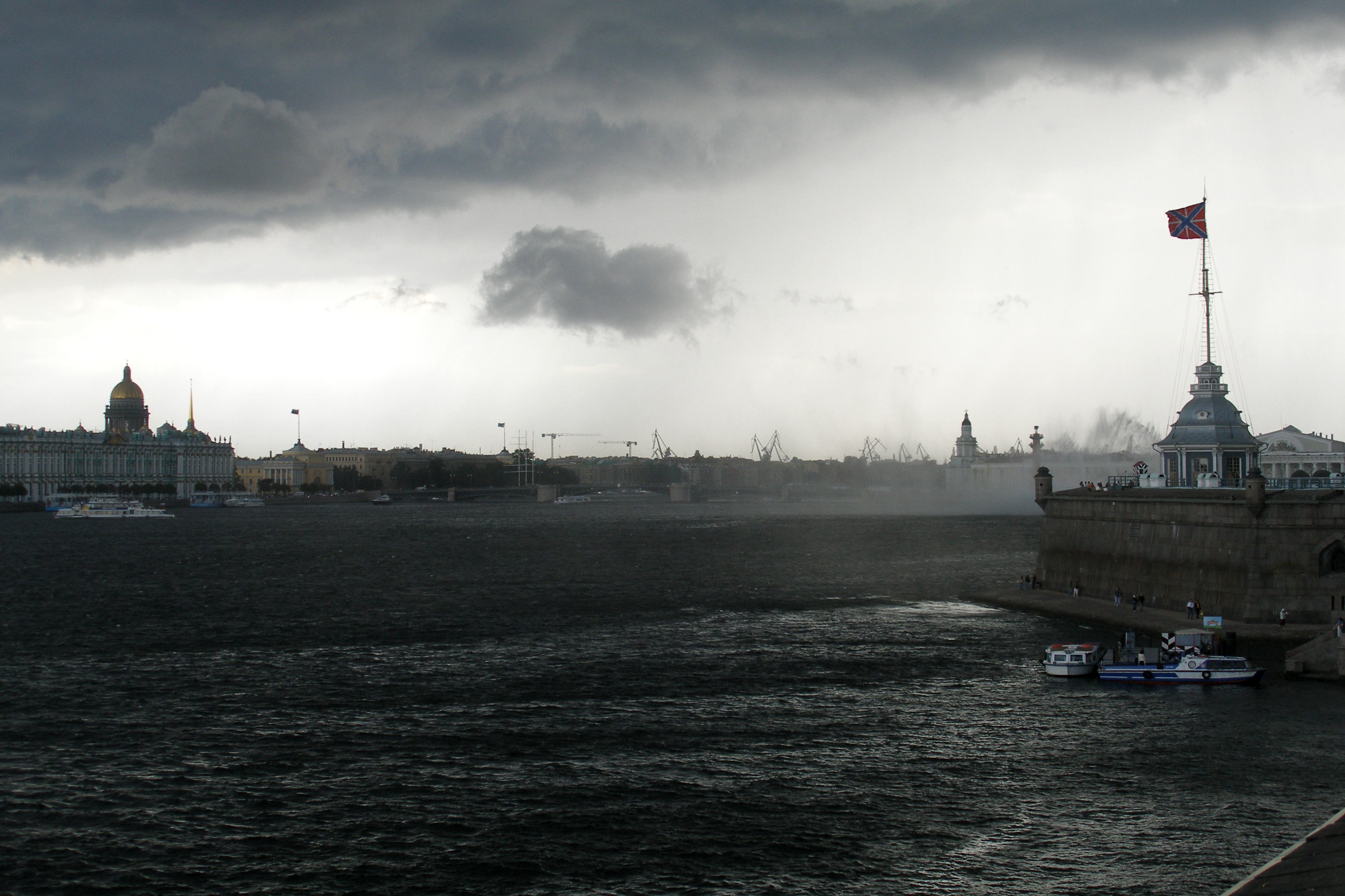 The Peter and Paul Fortress, the original citadel of Saint Petersburg, Russia, founded by Peter the Great in 1703 and built to Domenico Trezzini's designs from 1706 to 1740.